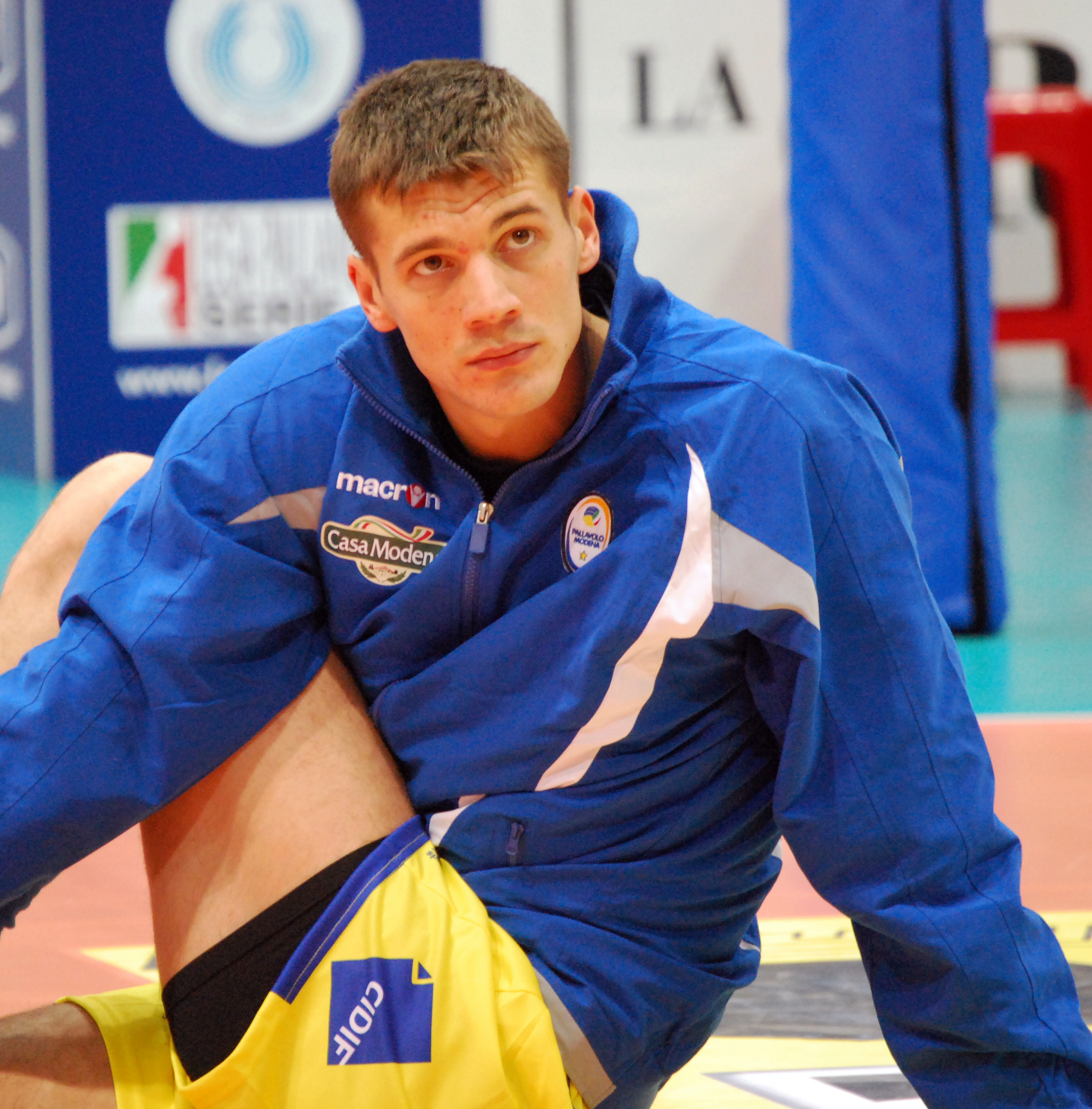 I took this pic during a volleyball match in Piacenza.